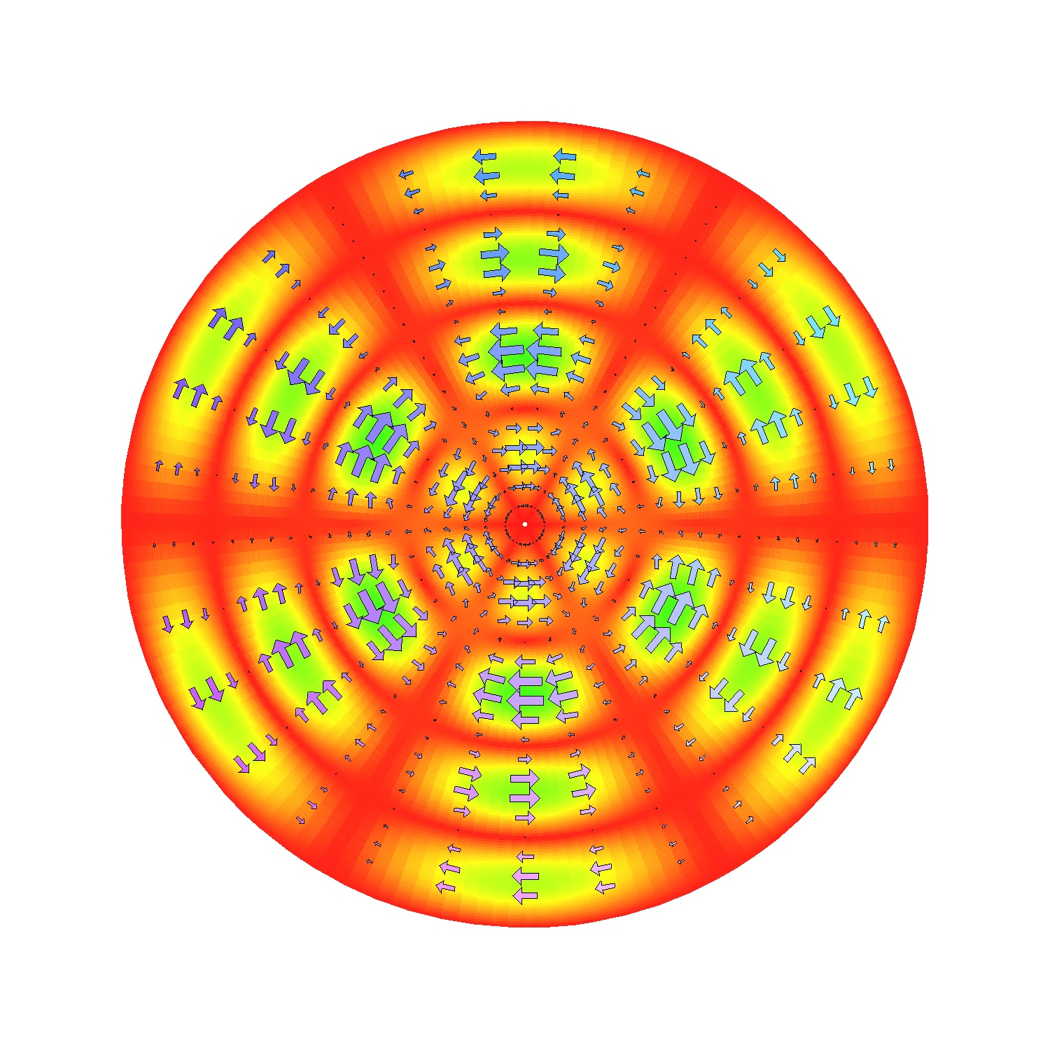 Plot of E and H fields on the TEnl mode defined by n and l.